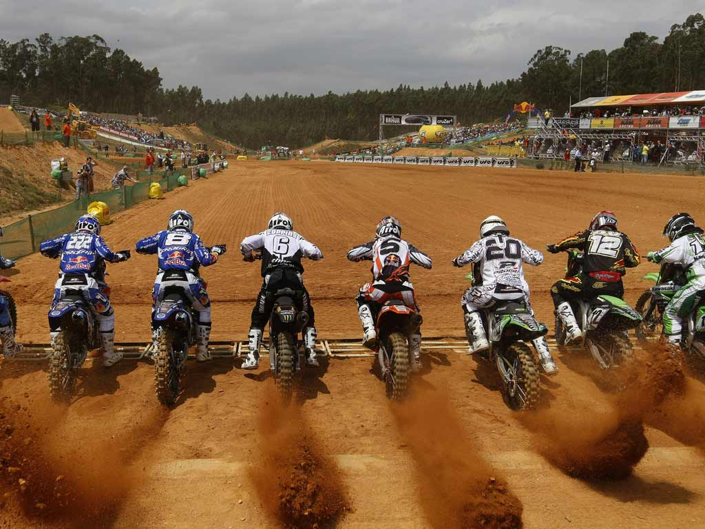 photo i took myself